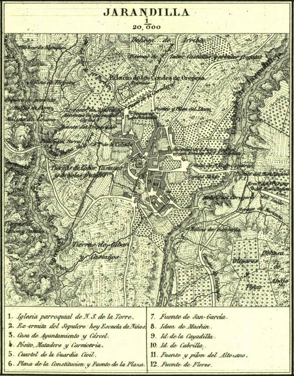 Map of Jarandilla de la Vera by Francisco Coello